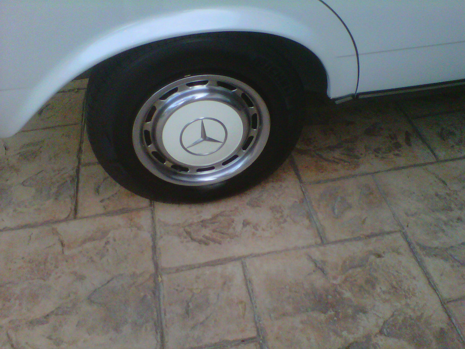 The rims of W123